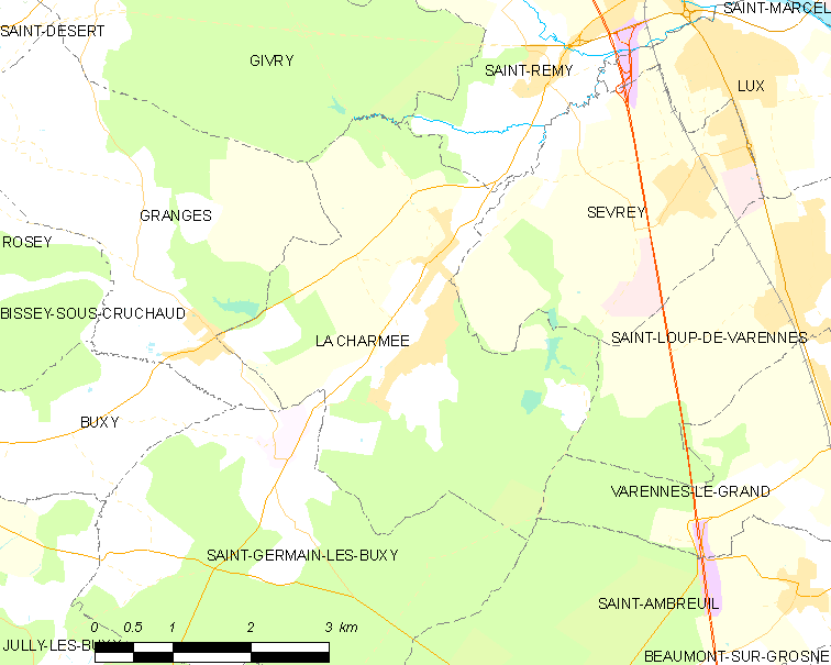 Map of French municipality